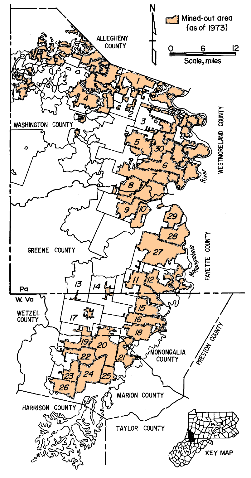 Original caption: "Figure 6, - Areas of the Pittsburgh coalbed that have been mined out." The legend originally incorporated into the figure named the mines: "1 Montour No. 4; 2 Mathies; 3 Maple Creek; 4 Westland; 5 Somerset No. 60; 6 Vesta No. 4; 7 Vesta No. 5; 8 Marianna No. 58; 9 Gateway; 10 Mather colleries; 11 Humphrey No. 7; 12 Shannopin; 13 Blacksville No. 2; 14 Blacksville No. 1; 15 Pursglove; 16 Osage No. 3; 17 Federal No. 2; 18 Arkwright; 19 Loveridge; 20 Federal No. 1; 21 Consol No. 93; 22 Consol No. 9; 23 Joanne; 24 Bethlehem No. 41; 25 Bethlehem No. 44; 26 Consol No. 20; 27 Robena; 28 Nemacolin; 29 Crucible; 30 Bethlehem No 51." The mined out areas have been colorized and the key relocated by the uploader, who claims no rights to these modifications.